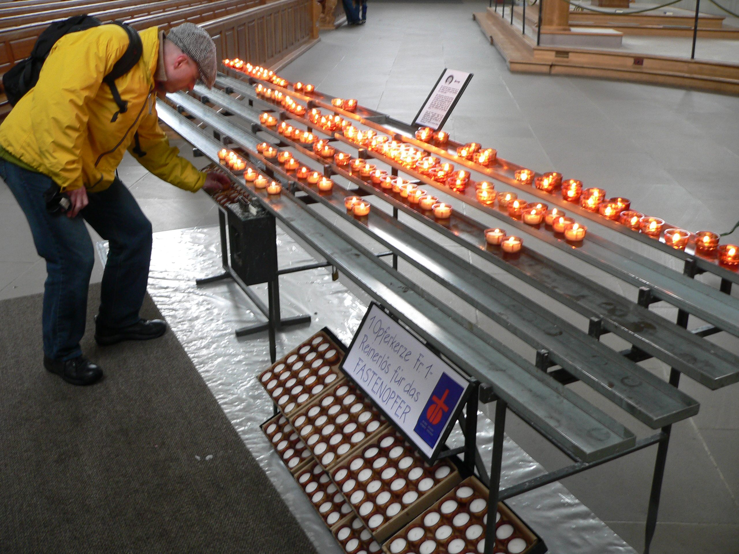 Saint-Gall cathedral, Switzerland